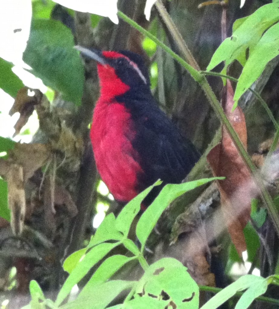 Rosy Thrush-tanager (Rhodinocichla rosea), Gamboa Rainforest Resort, Panama